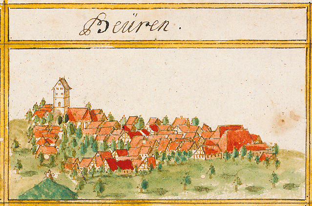 View of Beuren from the forest register books created by Andreas Kieser